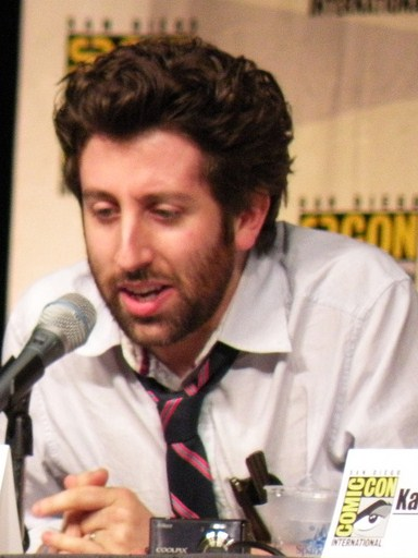 Simon Helberg